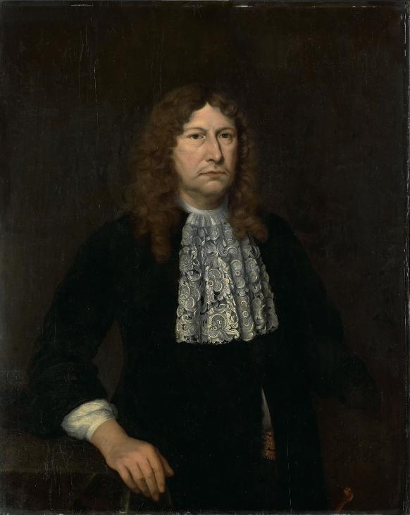 Portrait of Johannes Camphuys, Governor-General of the Dutch East Indies from 1684 to 1691. Part of the Governors-general series.